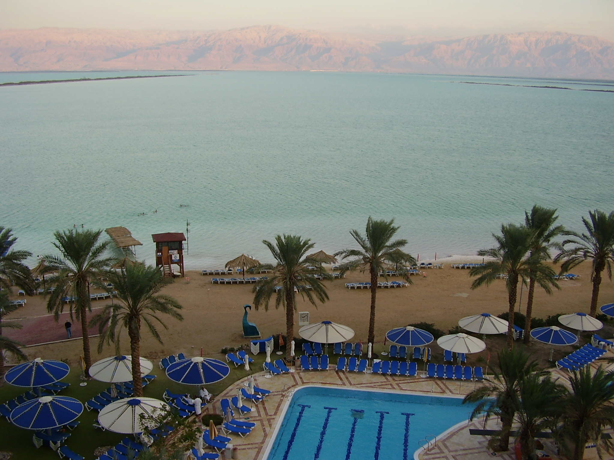 dead sea